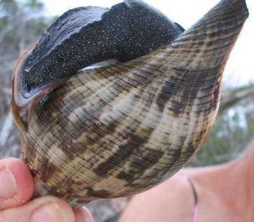 Photo of Fasciolaria tulipa out of water.